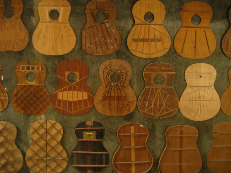 Guitar bracing, Alegre Guitar Factory, Cebu